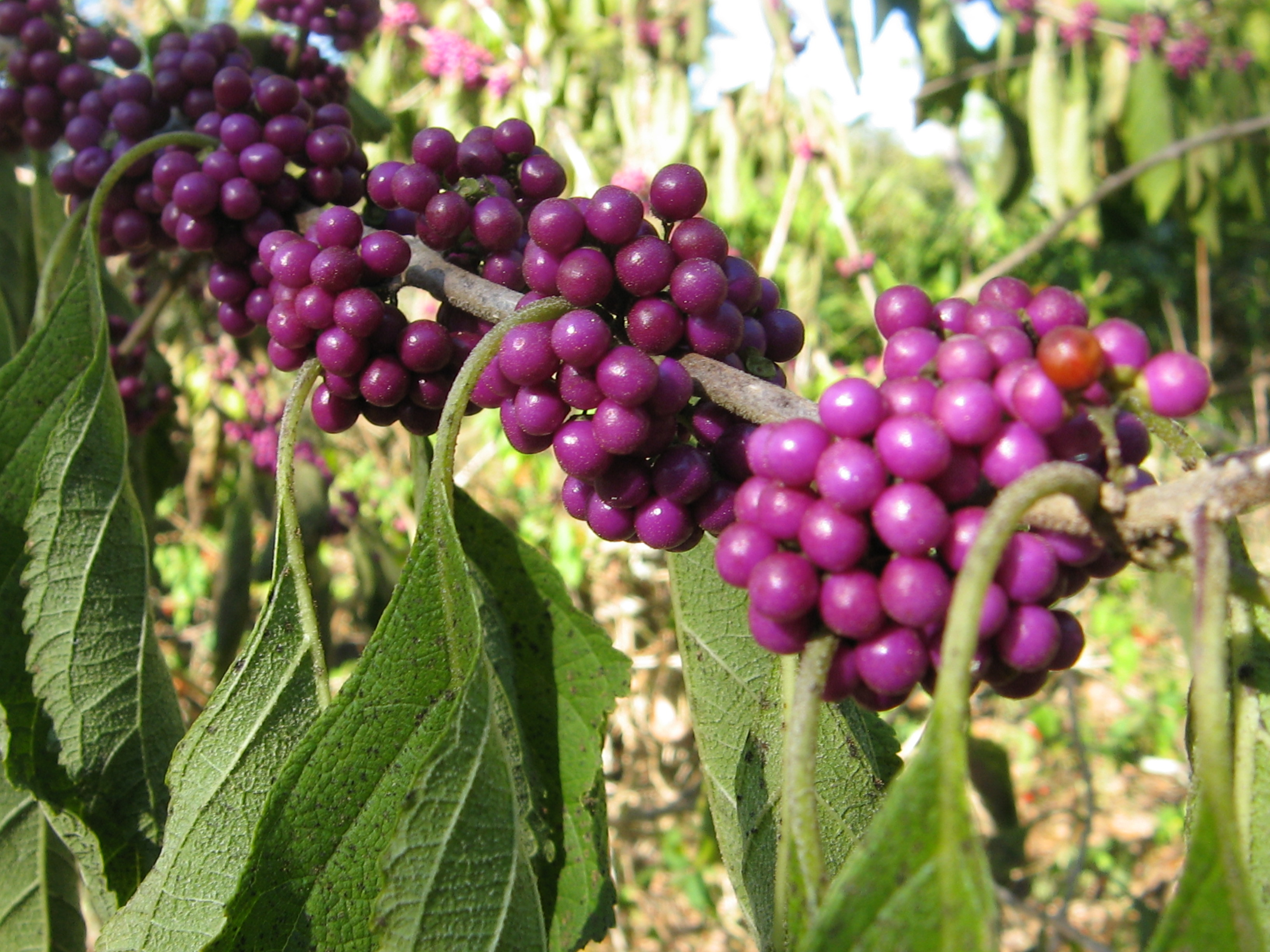 Beautyberry (Callicarpa americana), picture taken in Manatee Park, Ft Myers, Florida, USA.